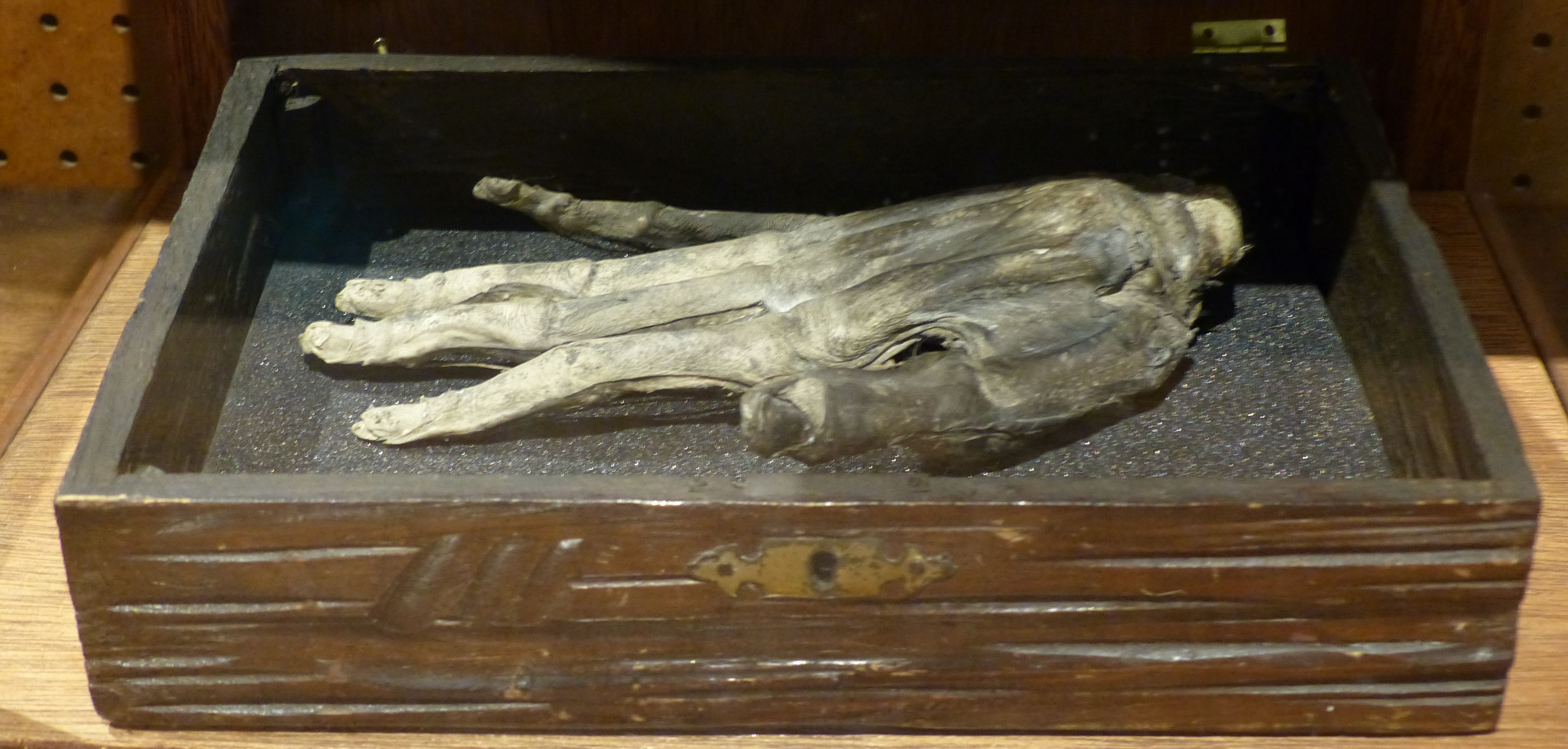 A hand of glory was a hanged man's hand which was used as a macabre candle holder by burglars to evade discovery. When alight, it was said to put all the sleeping people in a house into a trance from which they couldn't be awakened. Sometimes the fingers of the hand itself were lit. It was believed that if the thumb refused to light, it signified that someone in the house was still awake. This hand was discovered in the early 20th century on the roof wallpate of Hawthorn Cottage in Danby. It is thought that it might have originated from Gibbet Howe, Castleton and been in use as late as 1820.